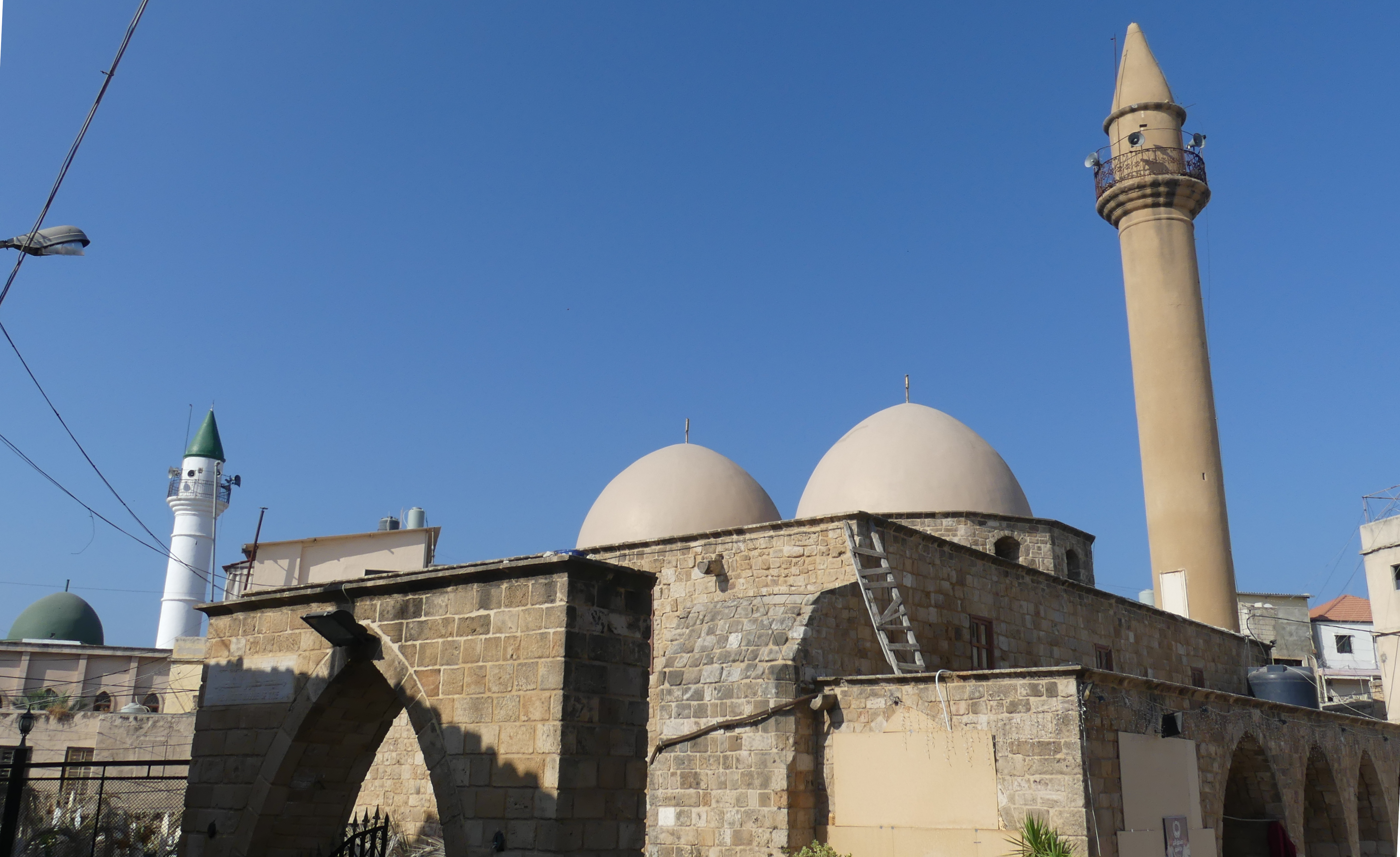 The Old Mosque (Sunna) of Tyre/Sour, South Lebanon, built during Ottoman rule in 1750, and in the background on the left the Shia Mosque, built in 1928 under Imam Sayed Abdul Hussein Sharafeddin and named after him - a symbol for the peaceful coexistence of Sunni and Shiite.